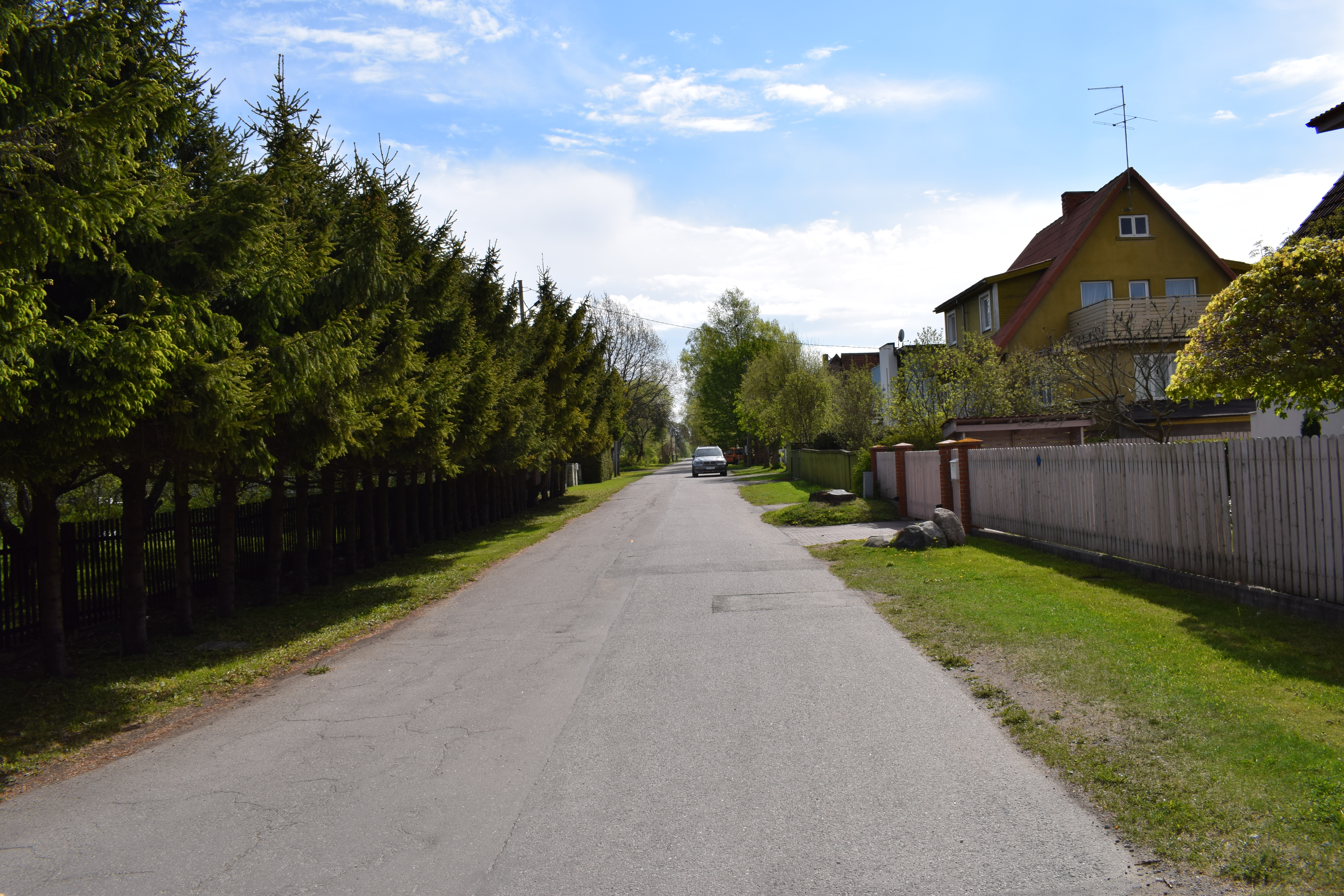 Künnapuu tänav